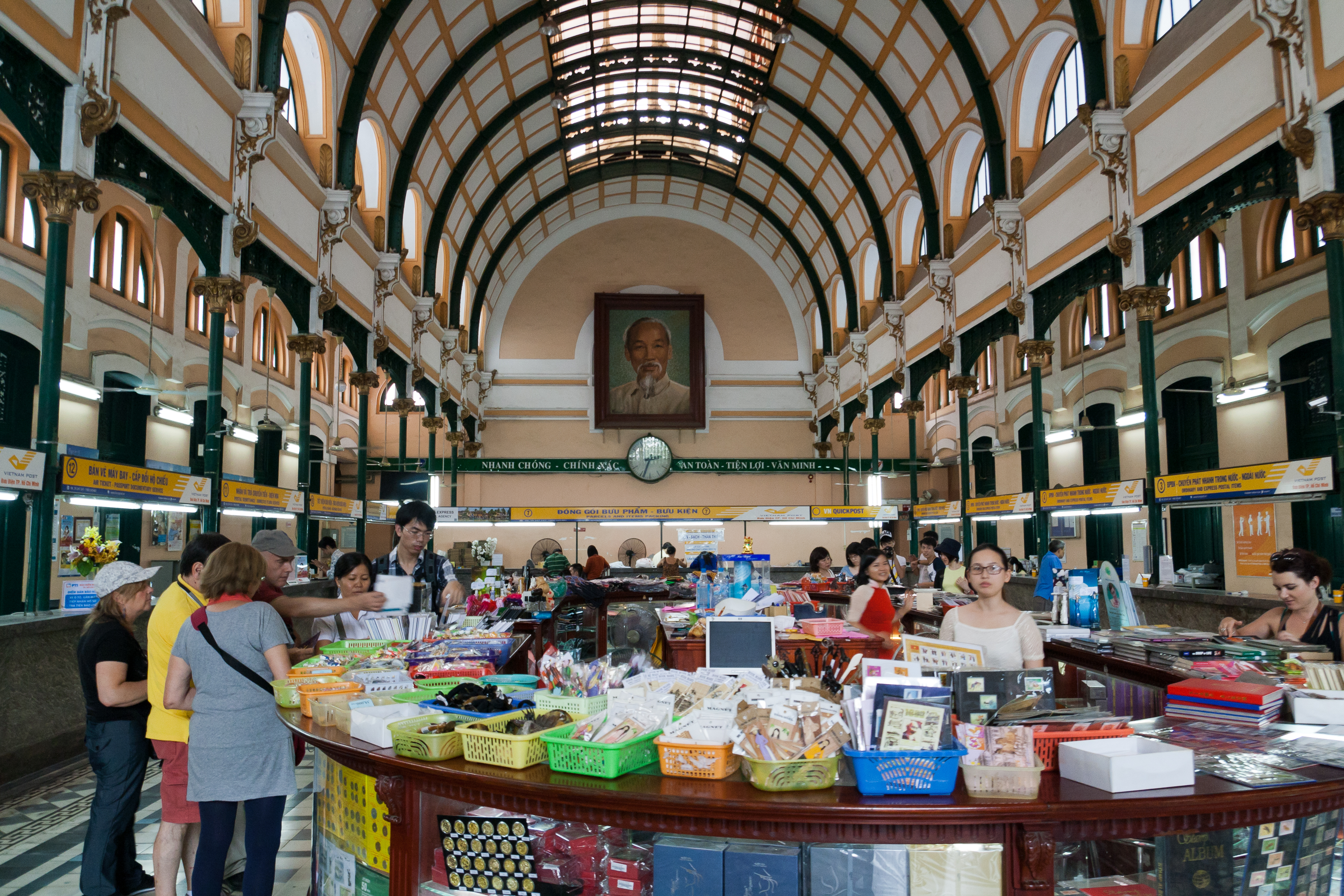 Interior of the Saigon Central Post Office